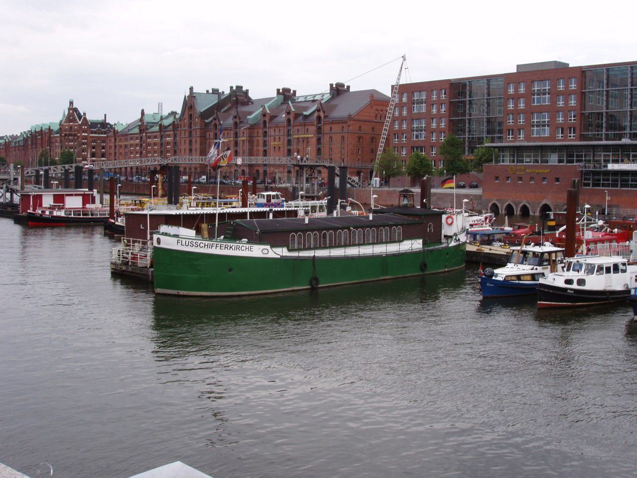 The Flussschifferkirche (Boatman's Church) in Hamburg, Germany, a protestant church built into a ship; probably the only "floating church" in Germany